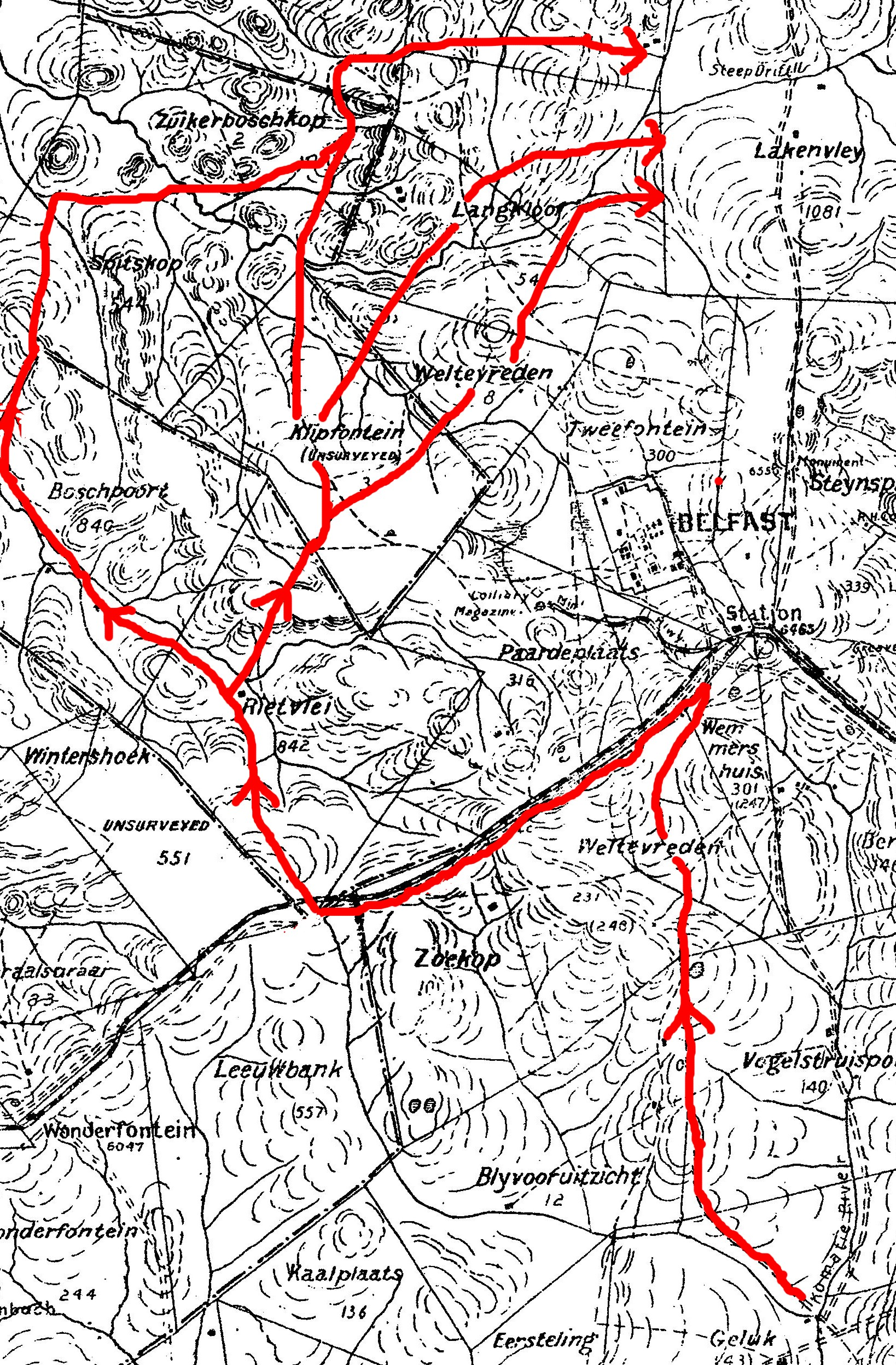 Route taken by general French on 26 August 1900